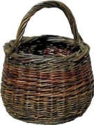 typical European basket made of willow, called "mandelette" among the French basketmakers , twined basketry, 28 cm height.